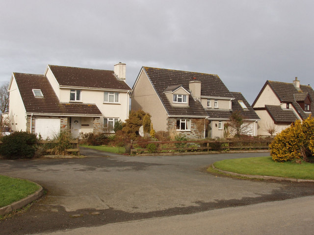 Houses in Week Green A close off the road to the Langdons.